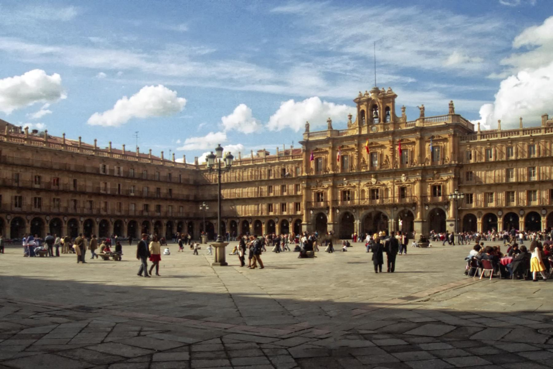 Plaza Mayor, Salamanca.